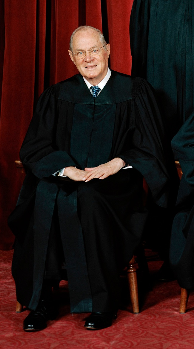 Justice Anthony Kennedy, 2009.